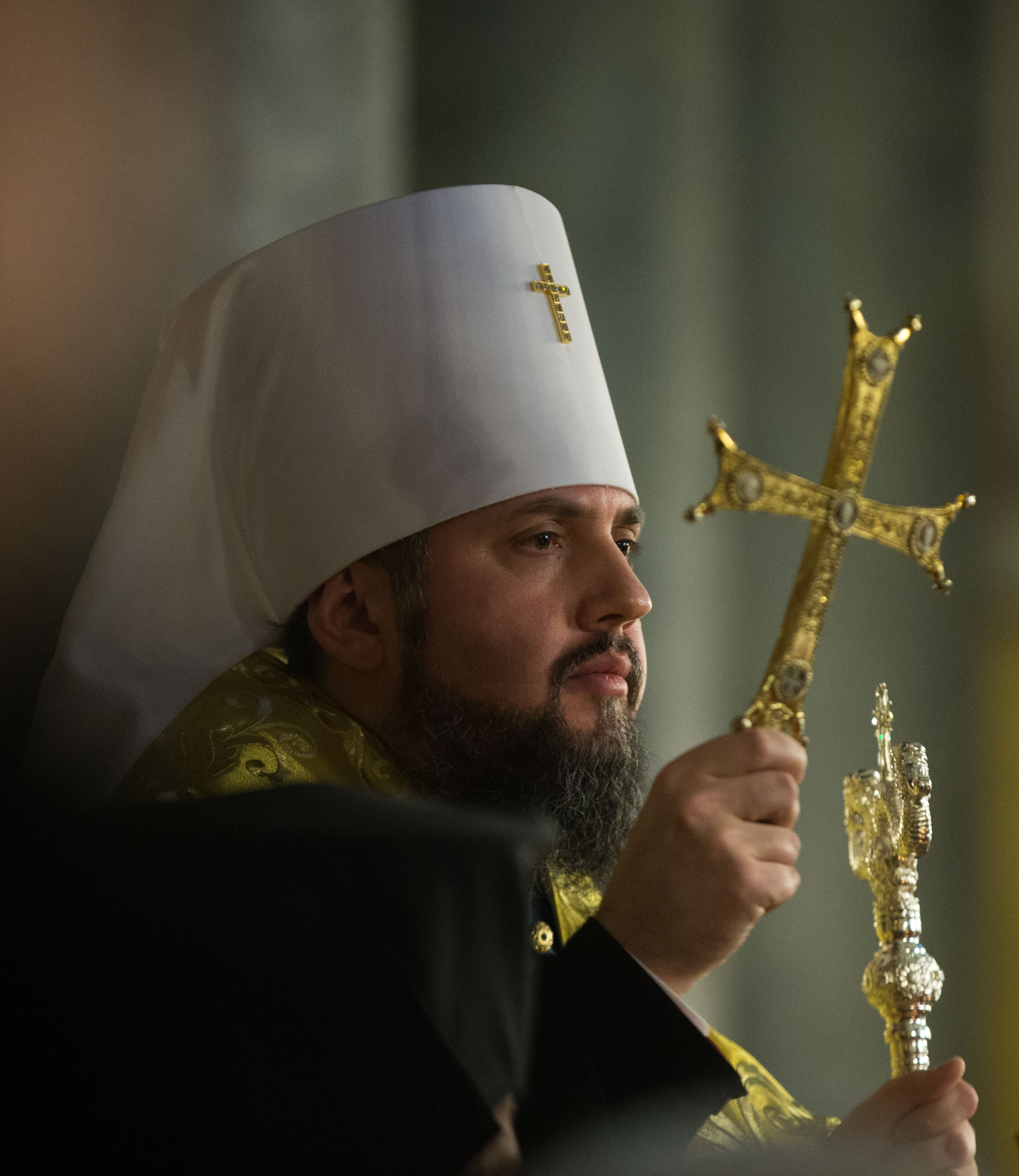 Working visit of the President of Ukraine Petro Poroshenko to the Turkish Republic (2019-01-05)